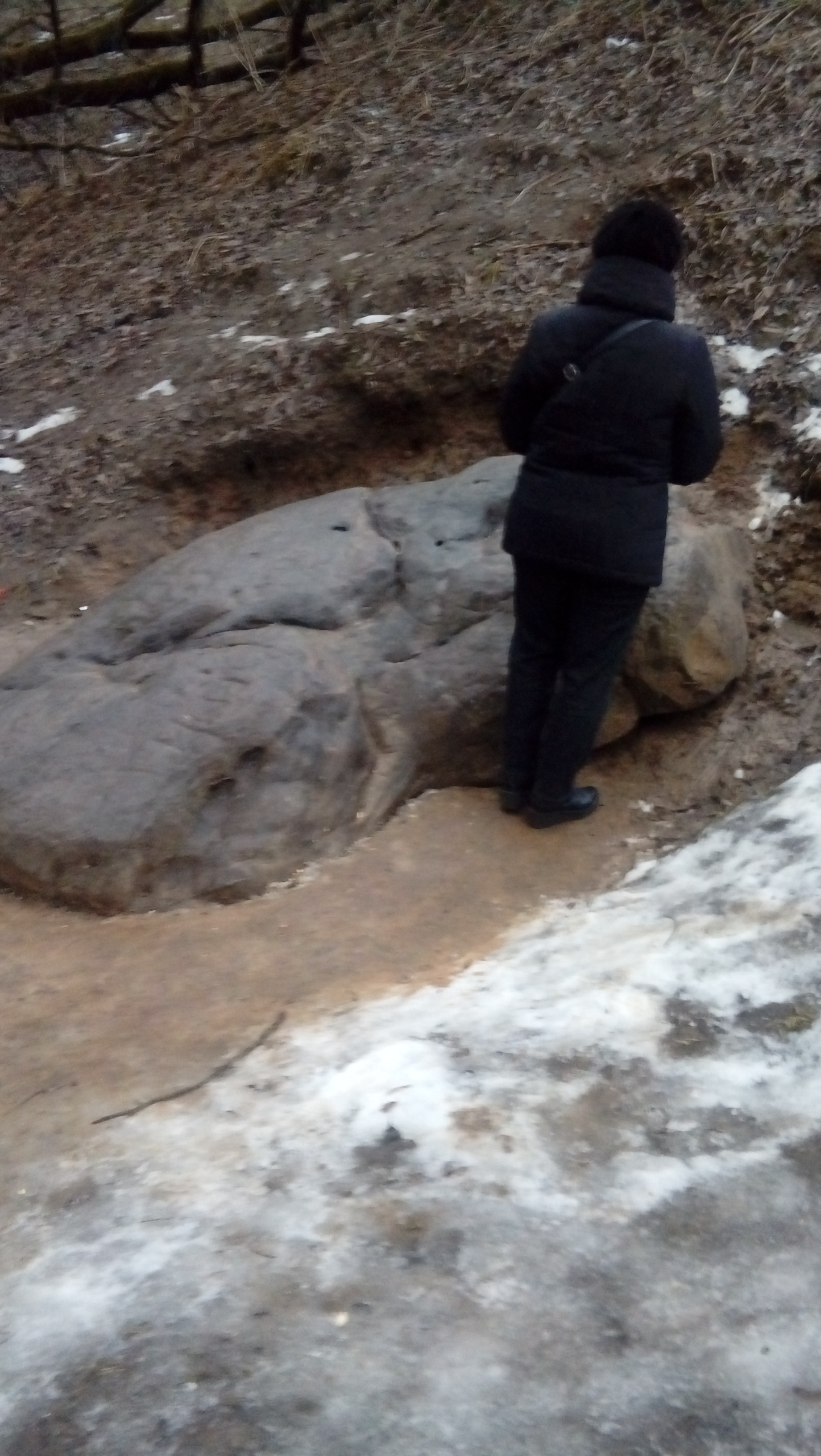 Local 'sacred stone' in Moscow's Kolomenskoye area.